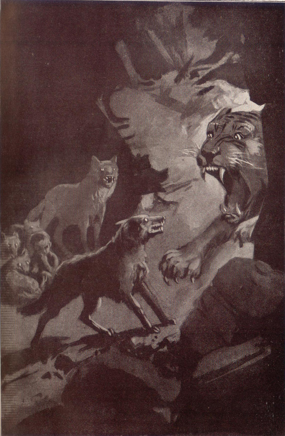 Shere Khan outside the wolves' den.